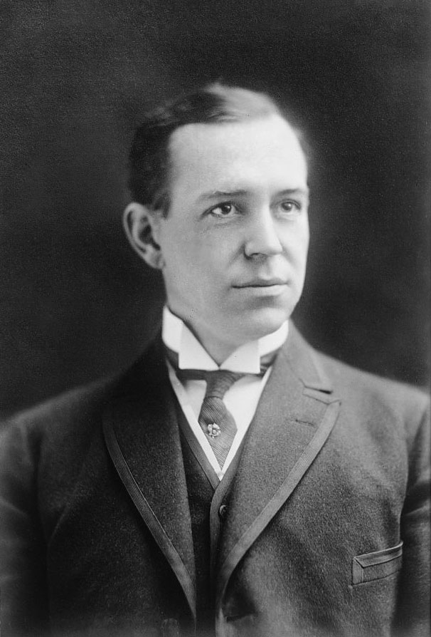 Bain News Service,, publisher. Thomas G. Haight [between ca. 1910 and ca. 1915] 1 negative : glass ; 5 x 7 in. or smaller. Notes: Title from unverified data provided by the Bain News Service on the negatives or caption cards. Forms part of: George Grantham Bain Collection (Library of Congress). Format: Glass negatives. Repository: Library of Congress, Prints and Photographs Division, Washington, D.C. 20540 USA, General information about the Bain Collection is available at Persistent URL: Call Number: LC-B2- 2989-12